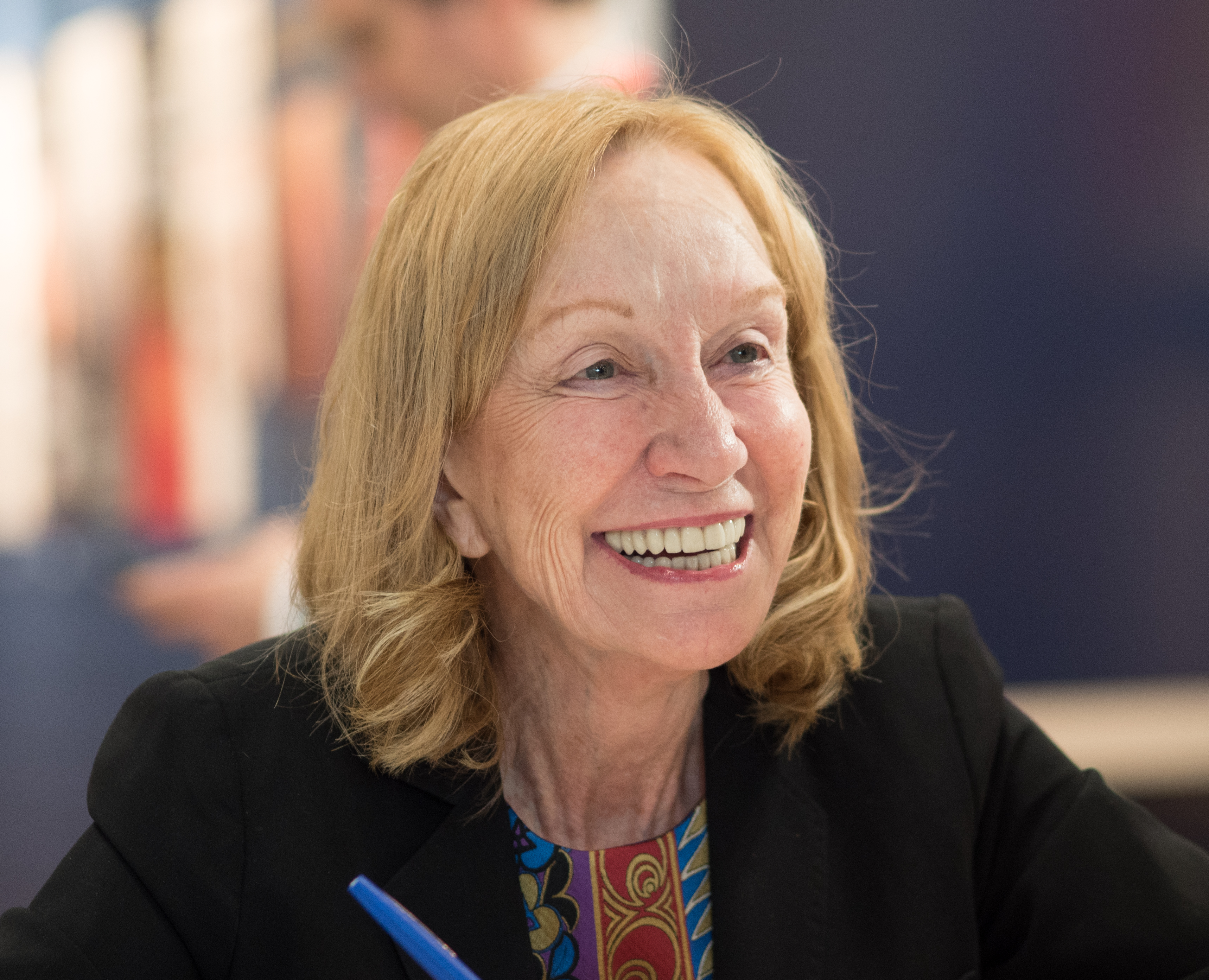 Doris Kearns Goodwin BookExpo America 2018 at the Javits Convention Center in New York City.